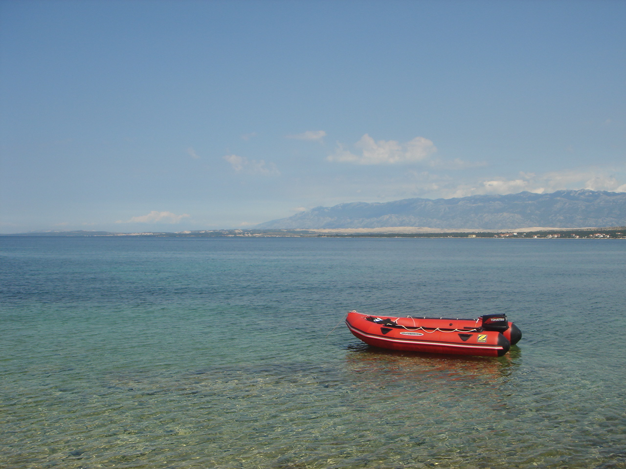 The northern part of the island of Maun overlooking the island of Pag (NbE).